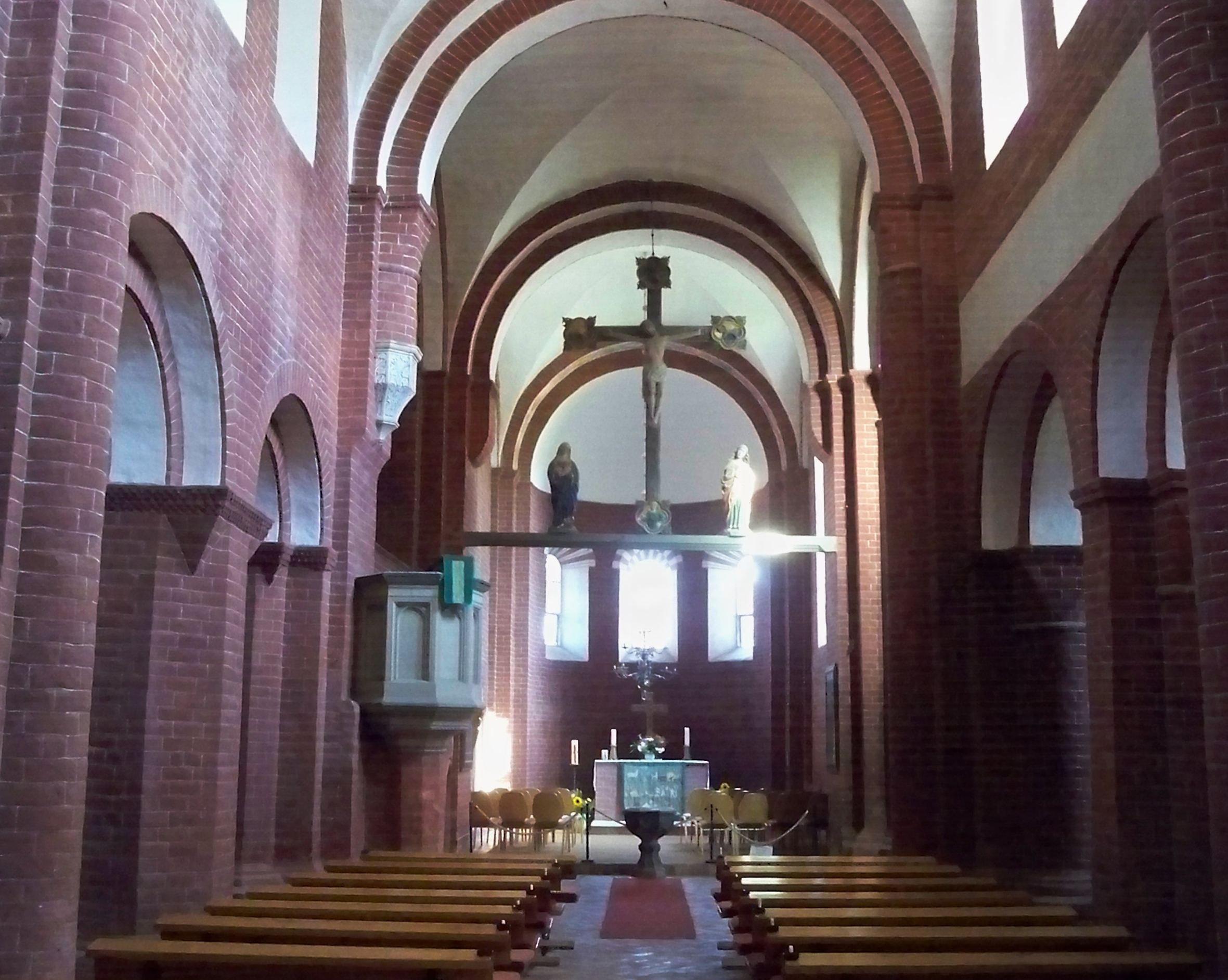 Diesdorf, Saxony-Anhalt, Klosterkirche, interior seen towards altar